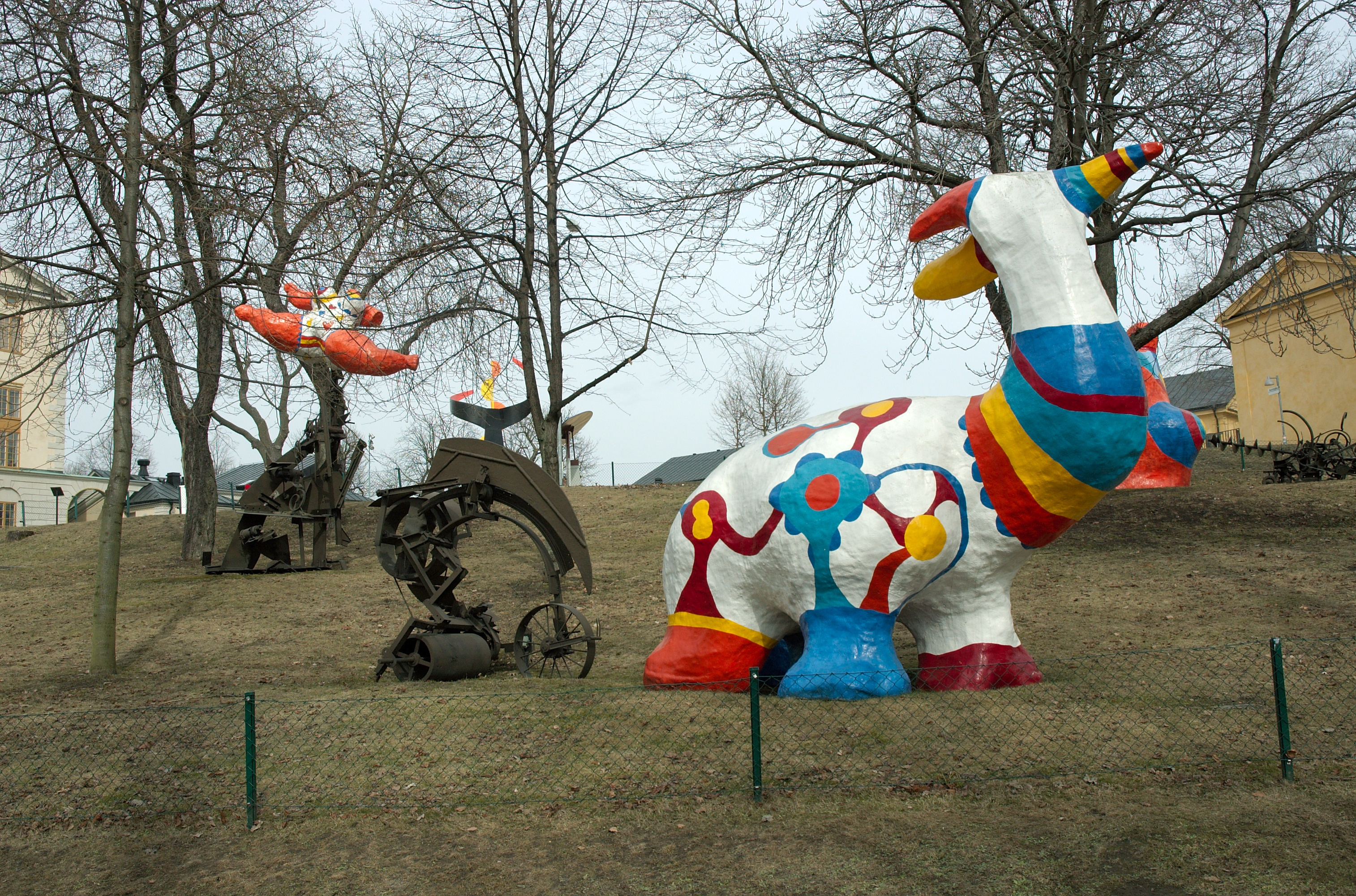 The Fantastic Paradise 1966 at the Moderna Museet in Stockholm/Sweden